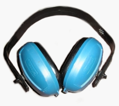 Ear muffs